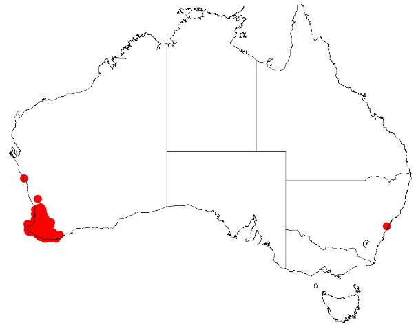 Scaevola calliptera occurrence data from Australasian Virtual Herbarium downloaded 12 May 2019 (no doi)